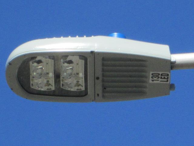 History of street lighting : General Electric Evolve ERS2 Scalable - Gray version found in Stoughton, Massachusetts